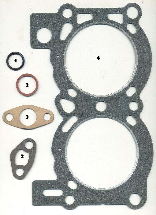 Gaskets: o ring fiber washer paper gaskets cylinder head gasket Scan, upload MH 11:06, 2005 Jun 19 (UTC)